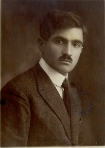 France Bevk (1890-1970), Slovene writer, translator and academic.